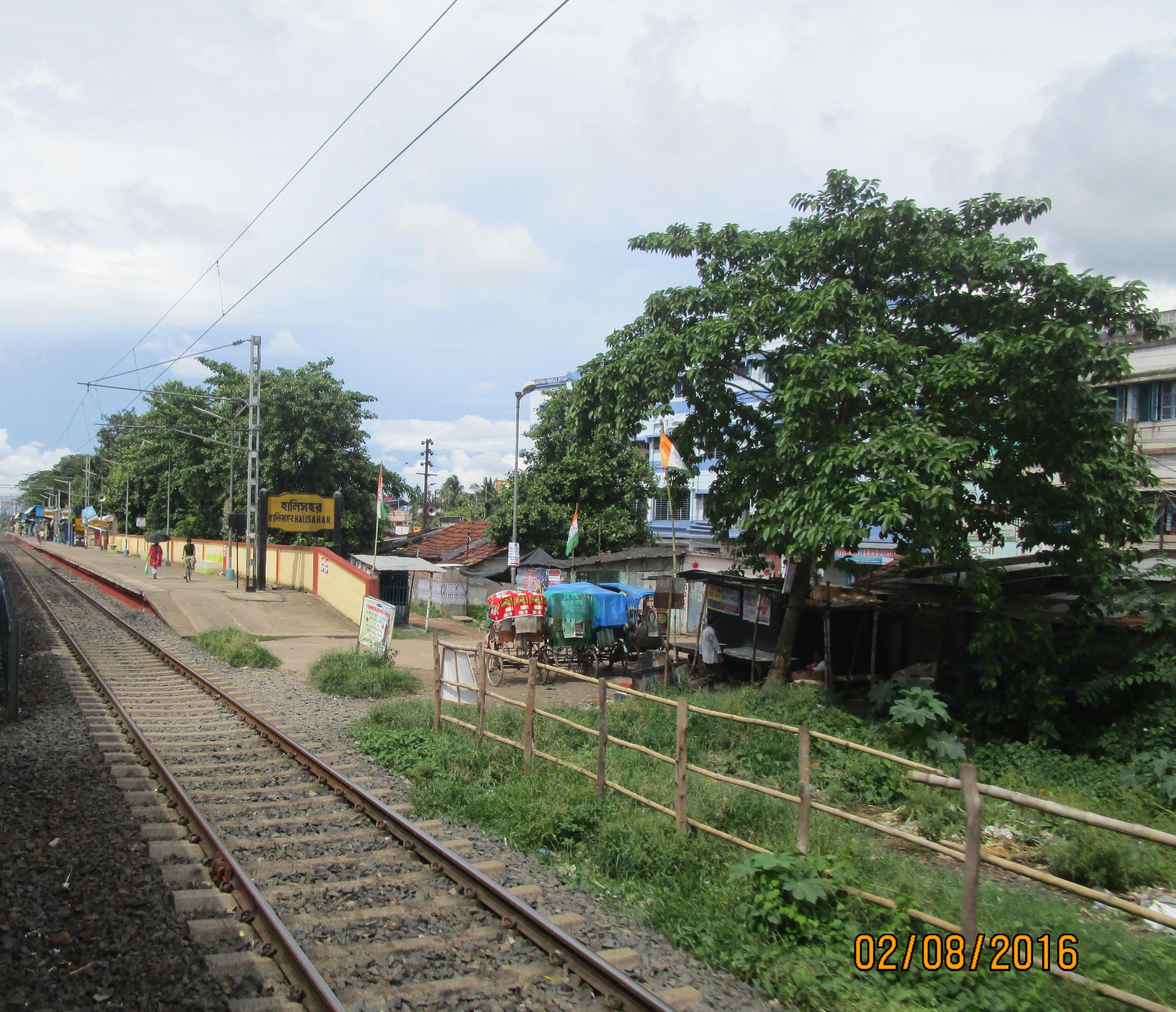 Halisahar railway station